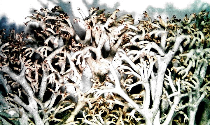 Cladonia mitis Sandst., 1918 (photograph of a herbarium specimen taken through a dissecting microscope (x6) showing a mass of podetial branches) Growing on soil in open area of woods in mats with Cladonia rangiferina & C. arbuscula, 2.2 miles W from the U. M. Biological Station, Cheboygan County, Michigan, USA; collected and identified by Richard E. Riefner (No. 81-225, 23 Jun 1981); specimen is now in the Lichen Herbarium of the New York Botanical Garden.